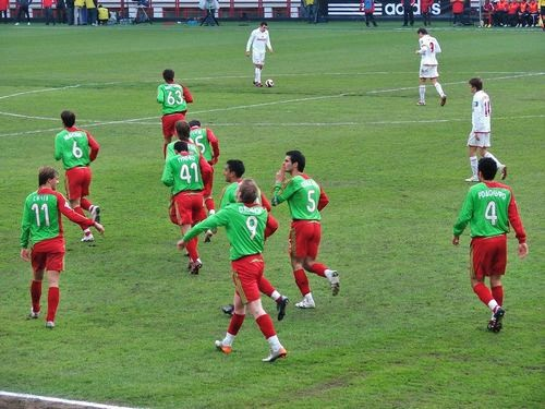 2007 Russian cup semifinal (FC Lokomotiv Moscow v.s. FC Spartak Moscow)